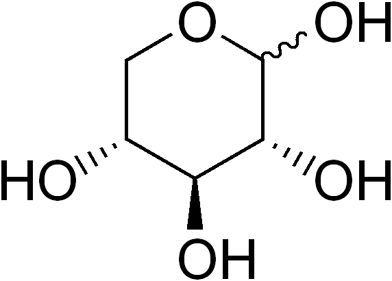 Chemical structure of xylose created with ChemDraw.